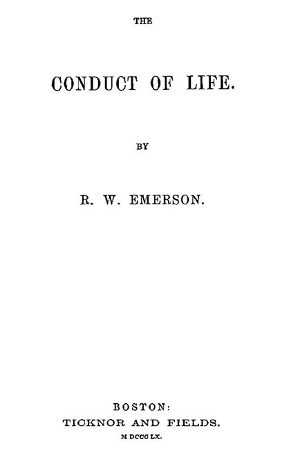 The first page of Emerson's The Condcut of Life (1860), published by Boston's Ticknor & Fields.